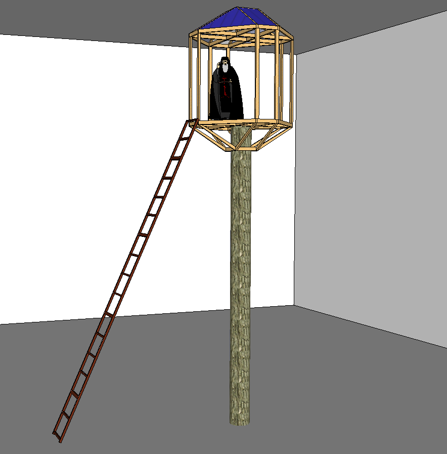 This is maybe the may the Stylites would climb the pillar and stay for days.